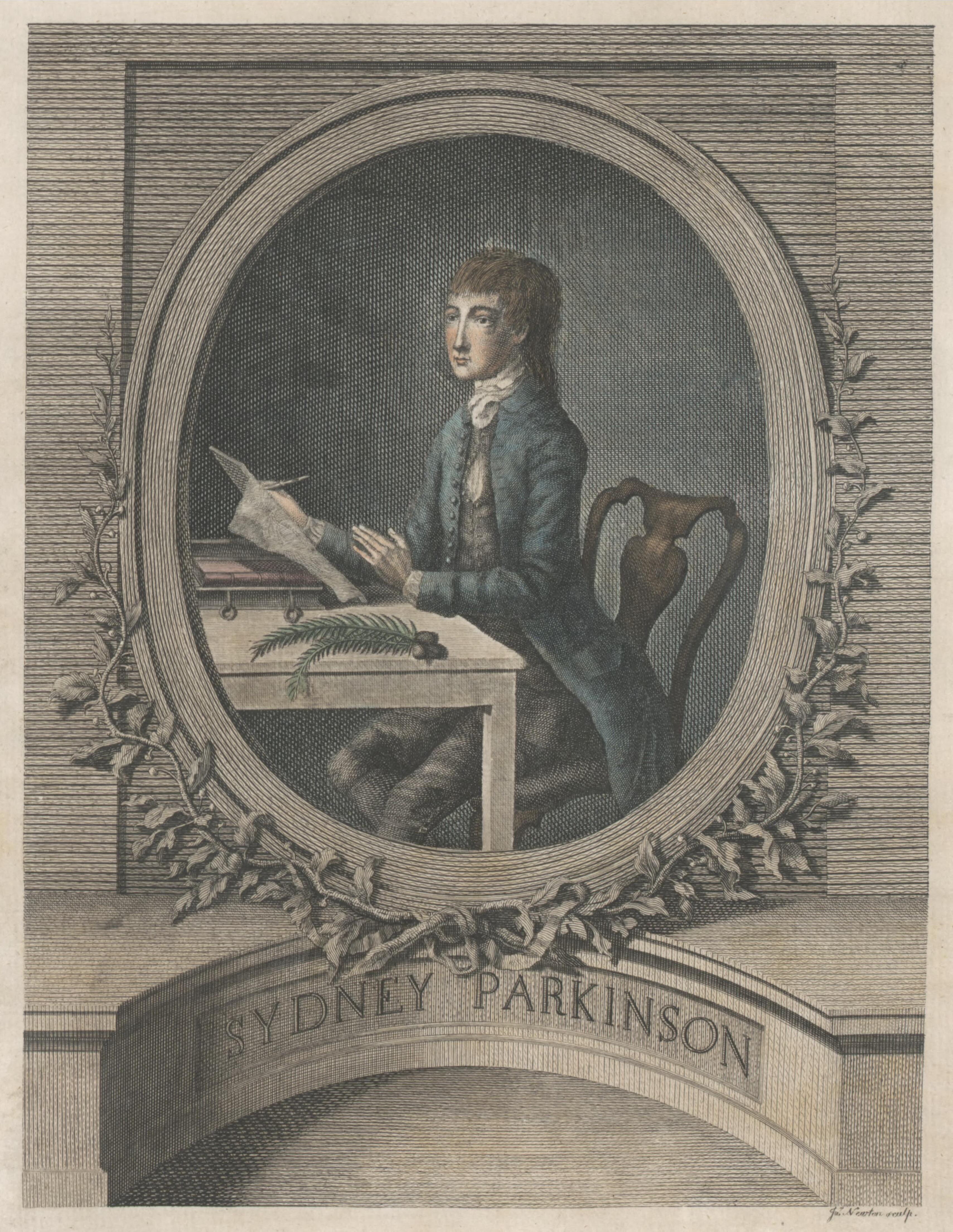 Portrait of Sydney Parkinson (1745–1771), botanical artist. It was the frontispiece to Parkinson's Journal of a voyage to the South Seas